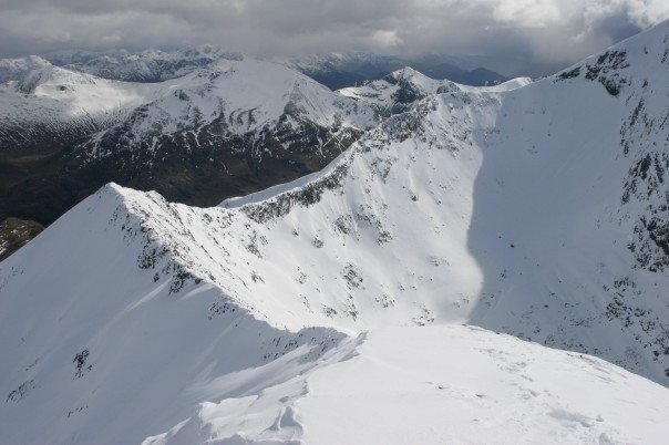 Carn Mor Dearg arete. Taken April 20 2006.